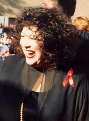 Liz Torres at the 1994 Emmy Awards